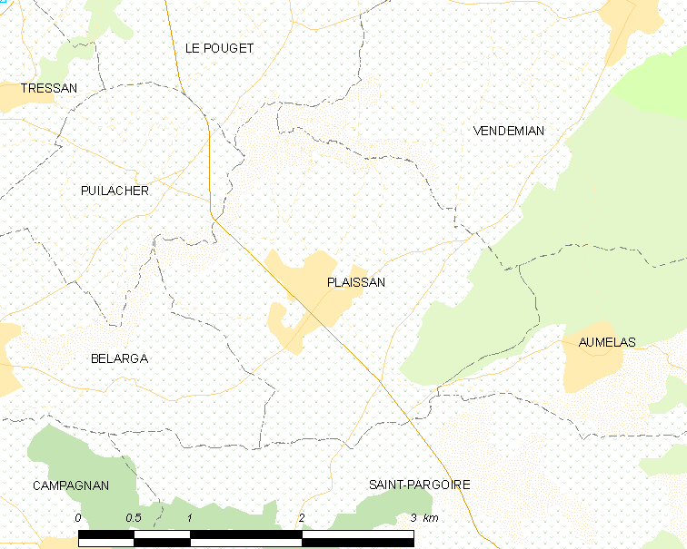 Map commune FR insee code 34204.png - Plaissan